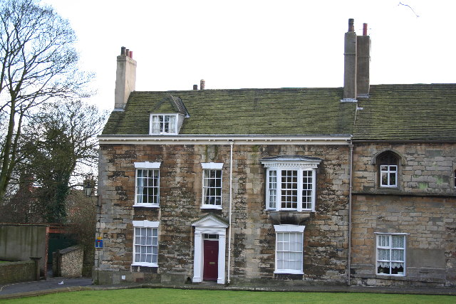 15 Minster Yard. Late 18th century house next to the entrance to Vicar's Court